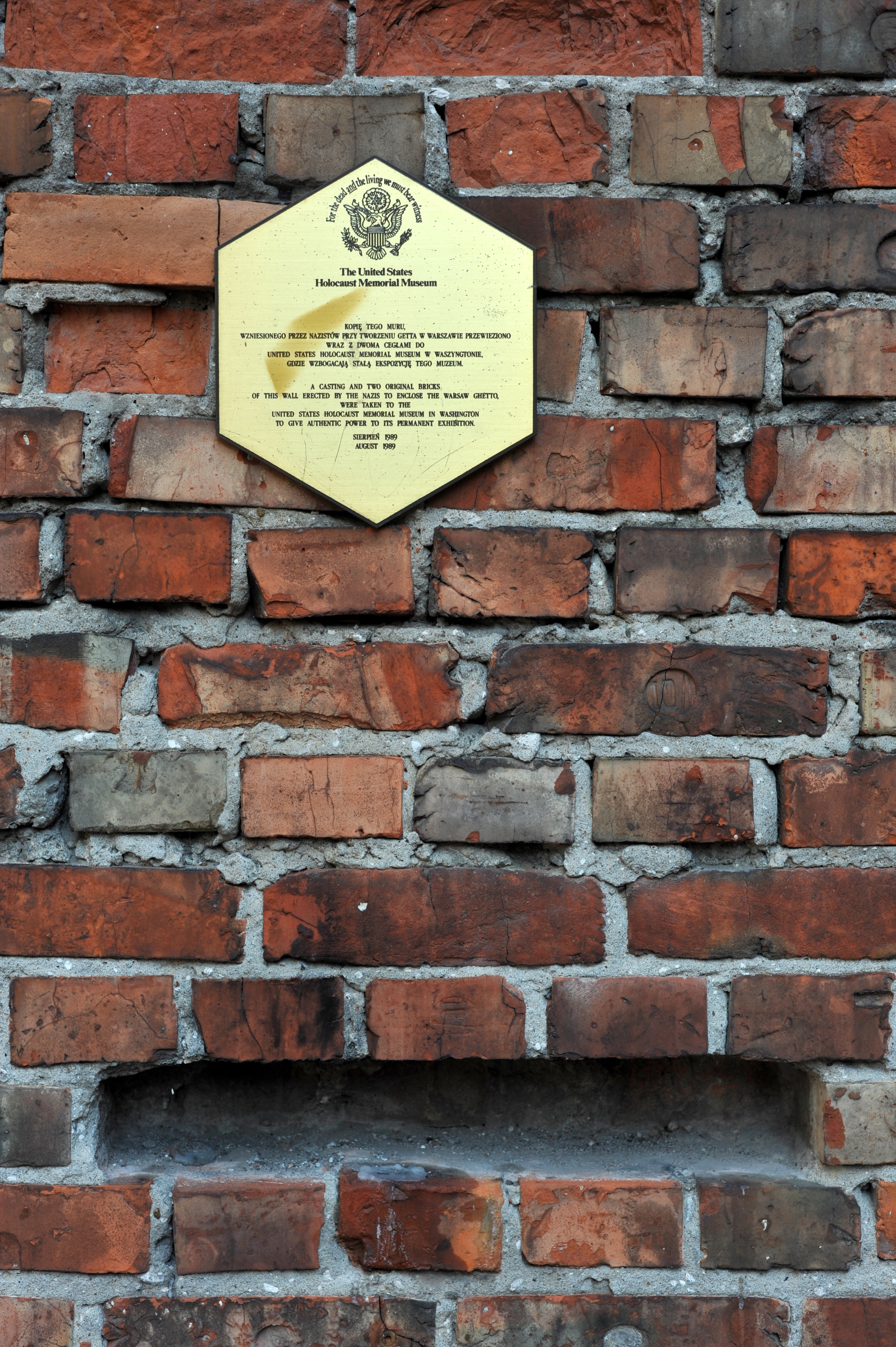 Remaining part of Warsaw Ghetto wall in a backyard of Sienna 55.